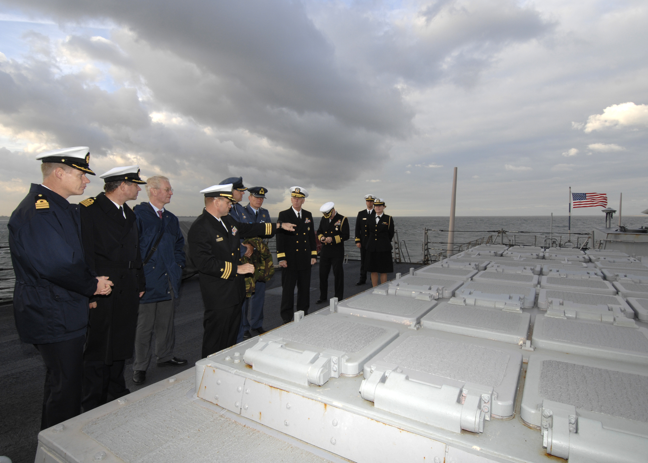 DEN HELDER, Netherlands (Oct. 18, 2010) Cmdr. Mark Oberley, commanding officer of the guided-missile destroyer USS Stout (DDG 55), gives a tour of the ship's aft vertical launch system to Rear Adm. Gerard P. Hueber (fourth from right) and guests from the Royal Netherlands Navy and Air Force. Stout visited the Netherlands for a port visit and a cooperative engagement with the Royal Netherlands Navy, Marine Corps and Air Force on theater security. (U.S. Navy photo by Mass Communication Specialist Seaman Anna Wade/Released)